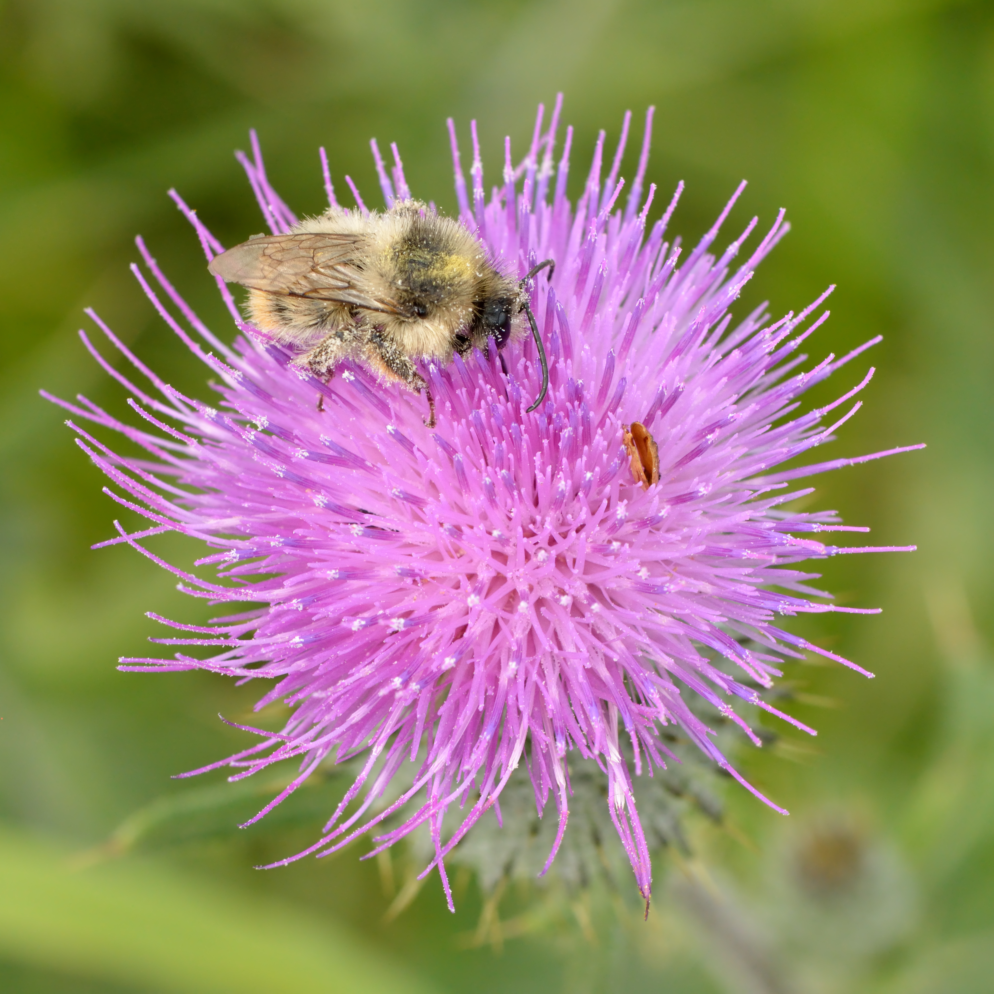 Shrill carder bee (Bombus sylvarum) on the spear thistle (Cirsium vulgare). Keila, Northwestern Estonia.